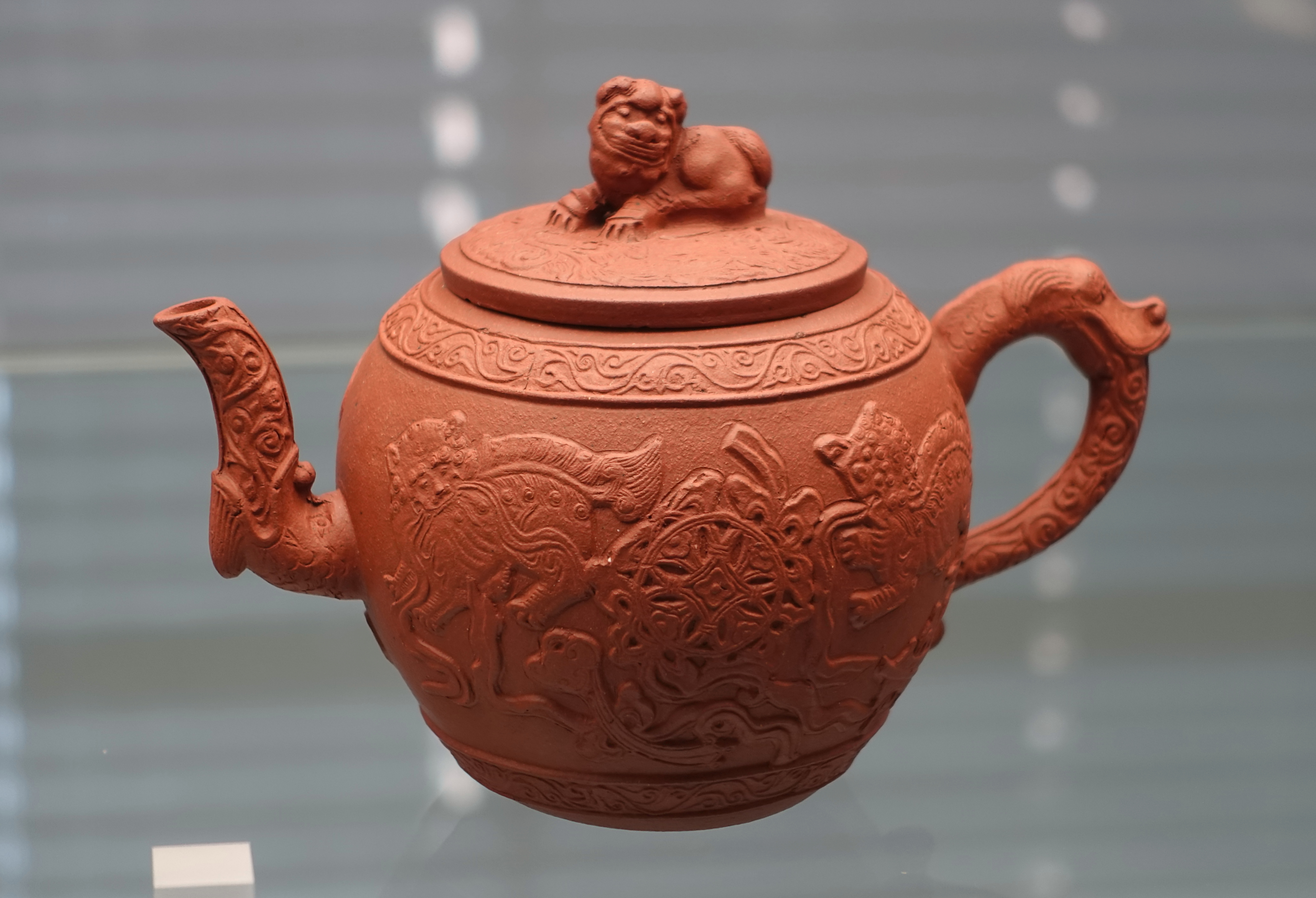 Exhibit in the Germanisches Nationalmuseum - Nuremberg, Germany.